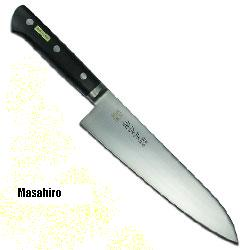 A real Masahiro-knife